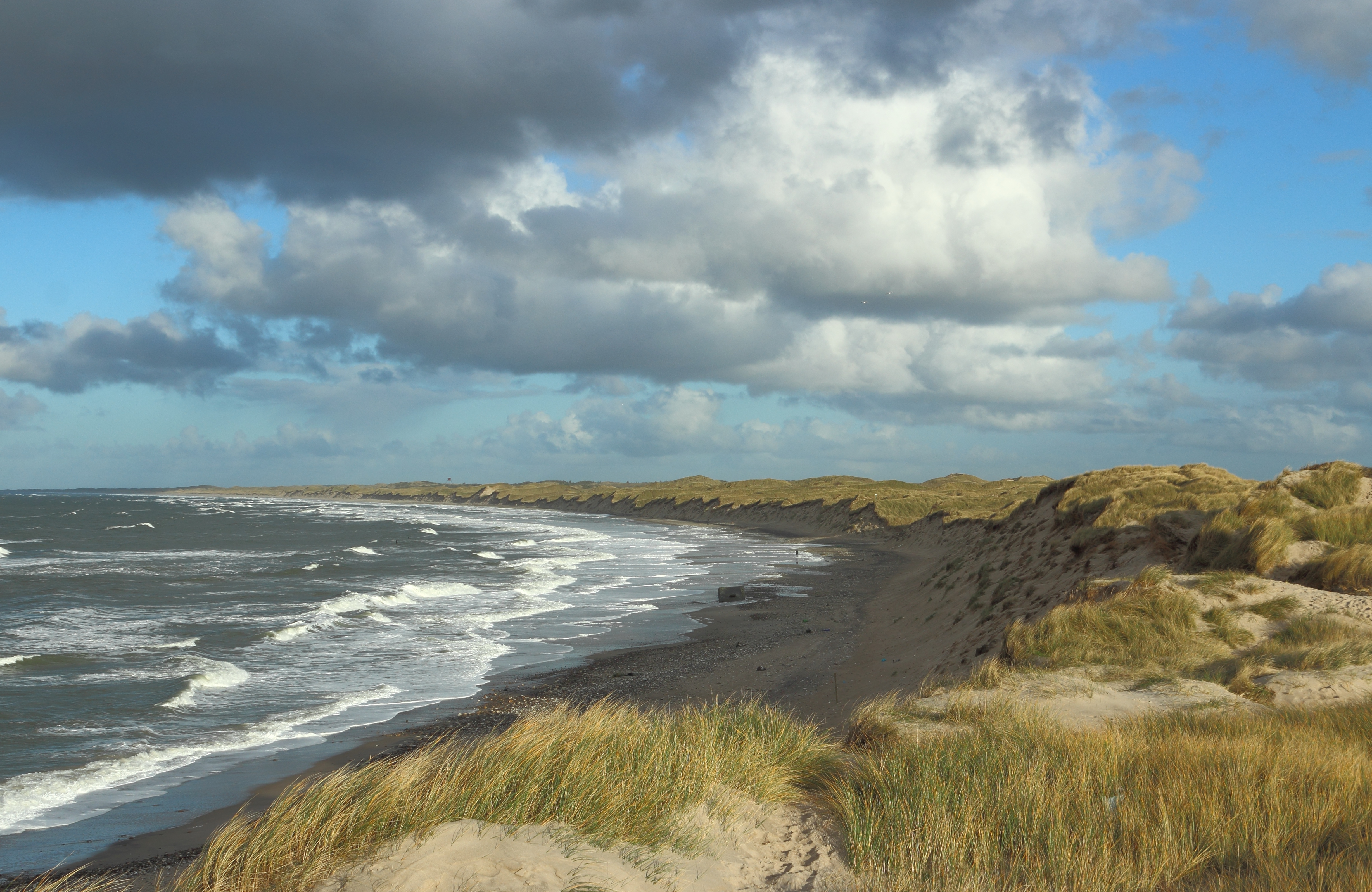 North Sea coastline at Nørre Vorupør, Denmark.